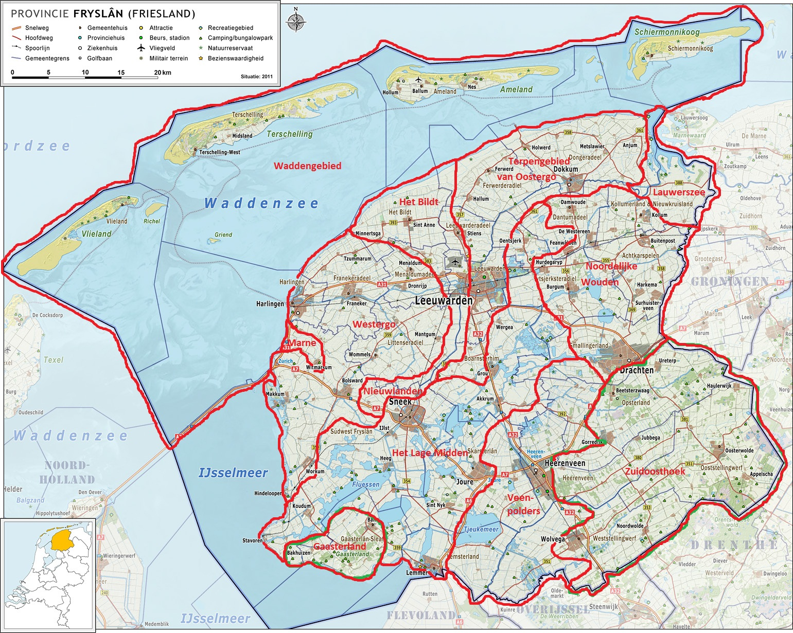 Landscapes Friesland